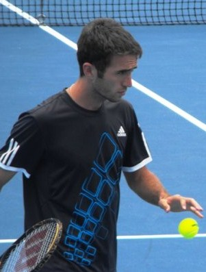 Marsel Ilhan - Australian Open 2010